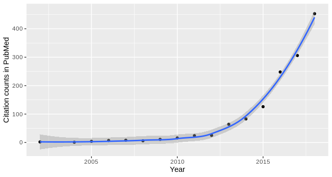 Number of articles related to the term "multiomics" in the PubMed database up to the year 2018